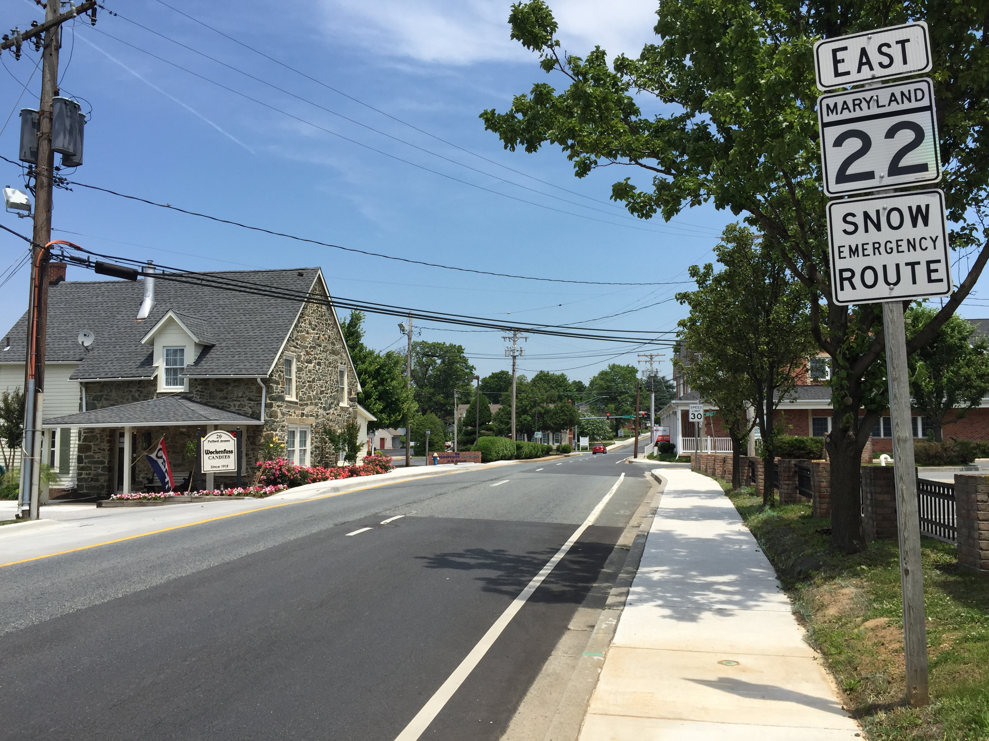 View east along Maryland State Route 22 (Fulford Avenue) at U.S. Route 1 Business and Maryland State Route 924 (Main Street) in Bel Air, Harford County, Maryland